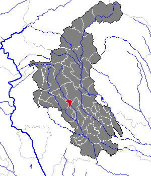 This map shows the area of the Gemeinde (municipality) Weiz in the Bezirk (district) Weiz, Styria, Austria.